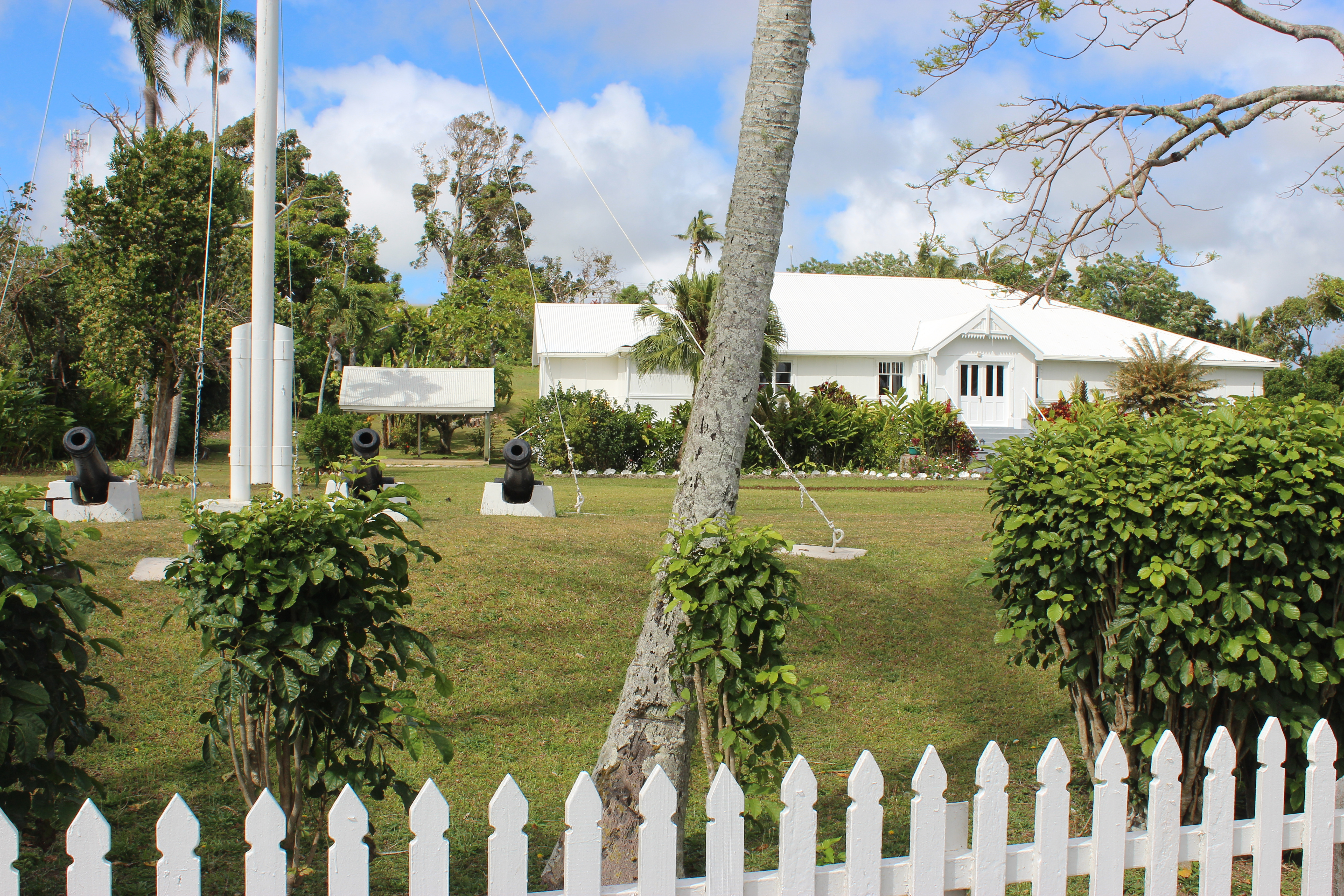 British High Commissioner's residence, Vuna Road, Nukuʻalofa, Tonga